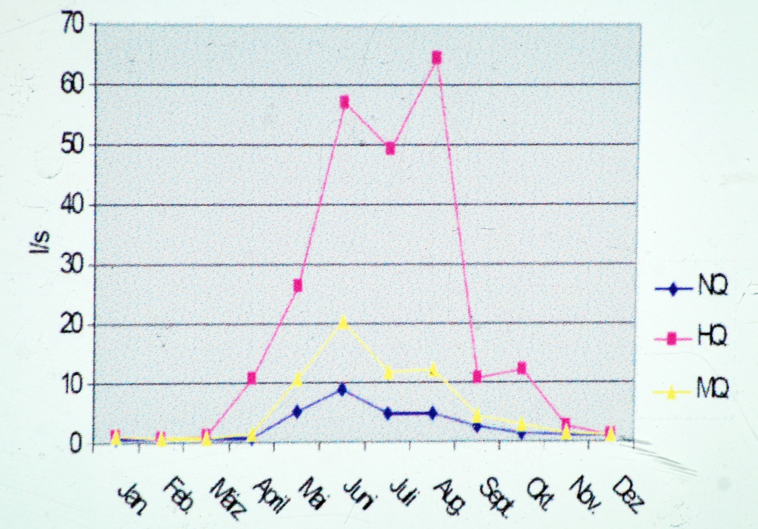 Dorferbach/Islitz